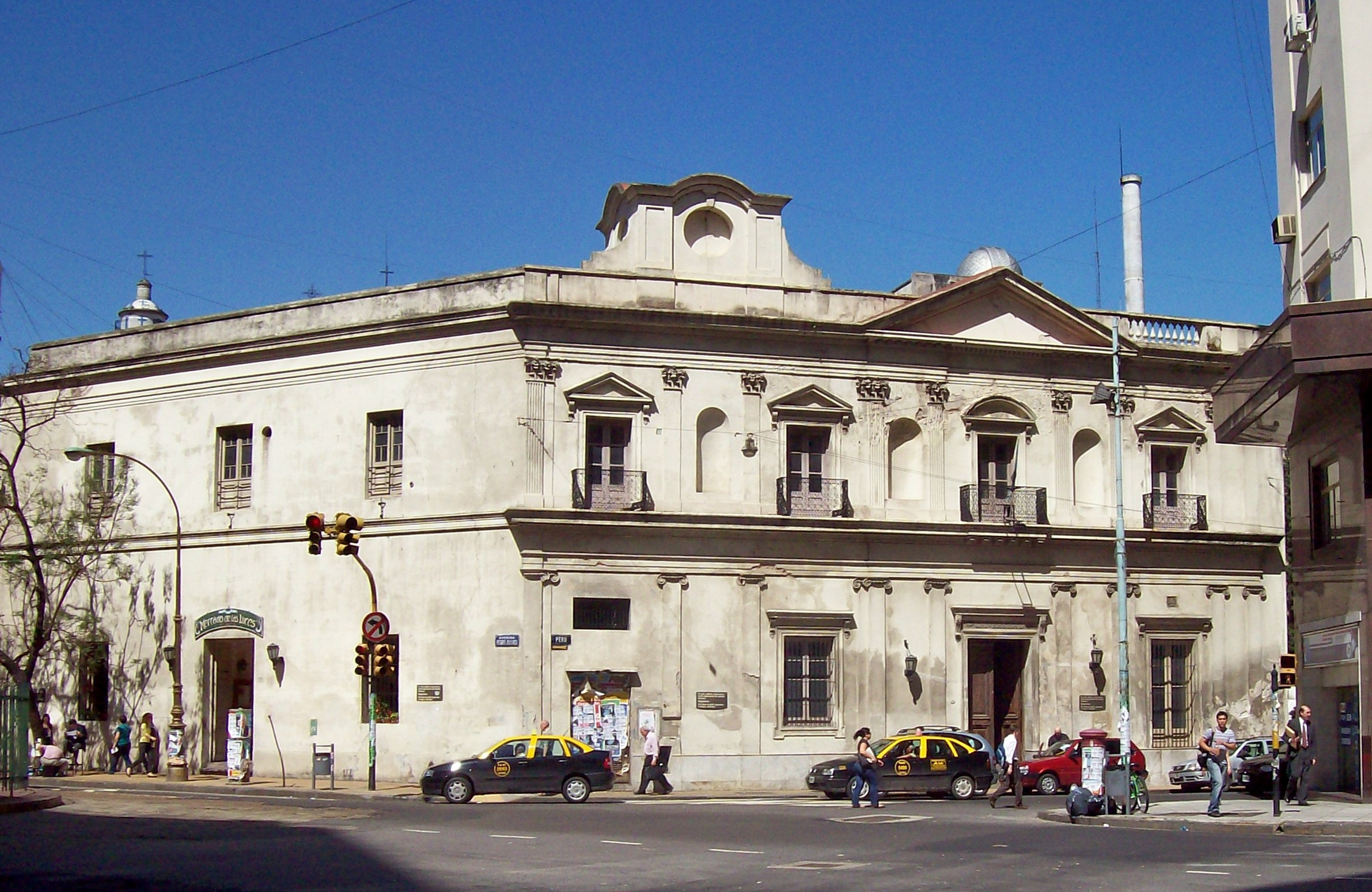 Manzana de las Luces, in "Barrio de Monserrat", Buenos Aires, near Plaza de Mayo. NW corner (Perú y Julio Argentino Roca)